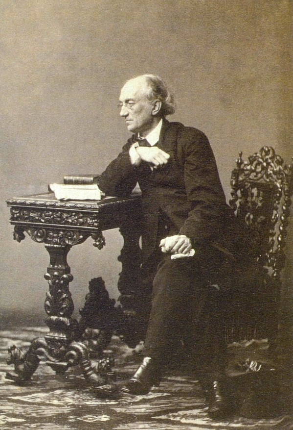 Fyodor Tyutchev